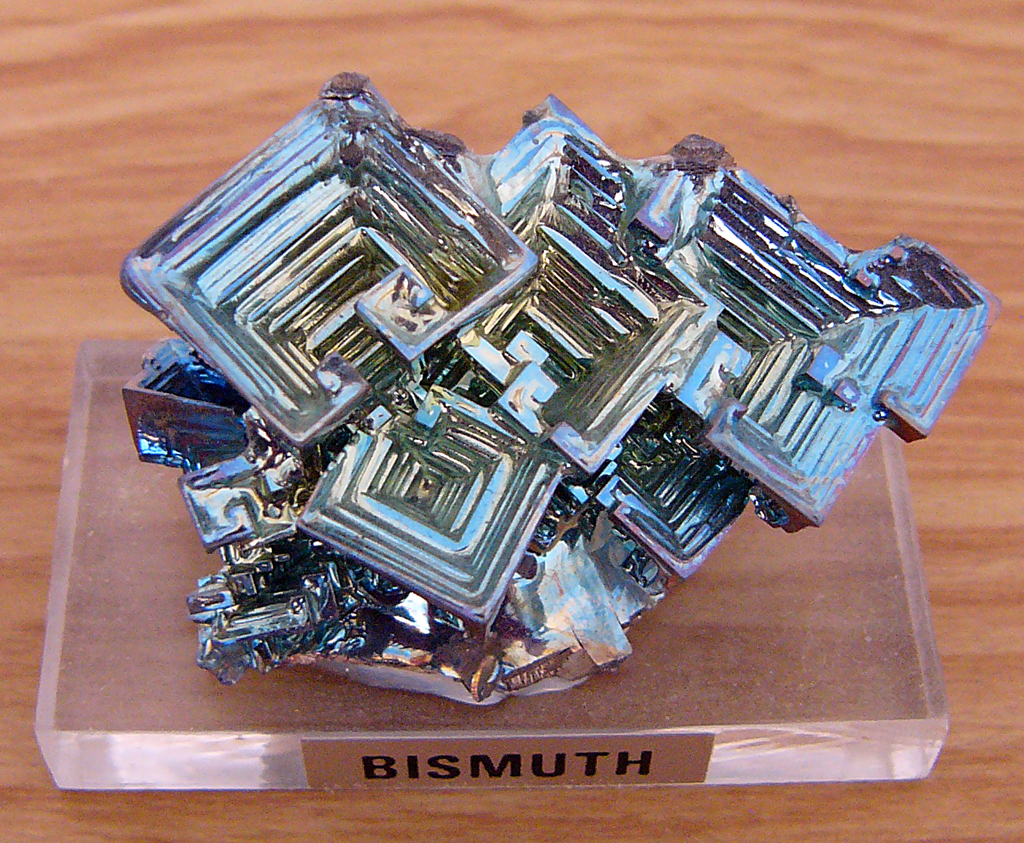 Bismuth is a chemical element that has the symbol Bi and atomic number 83. This is a bismuth crystal, that may be synthetic (see Hopper crystal).